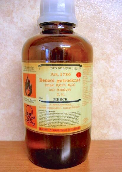 Image showing a bottle of Benzene